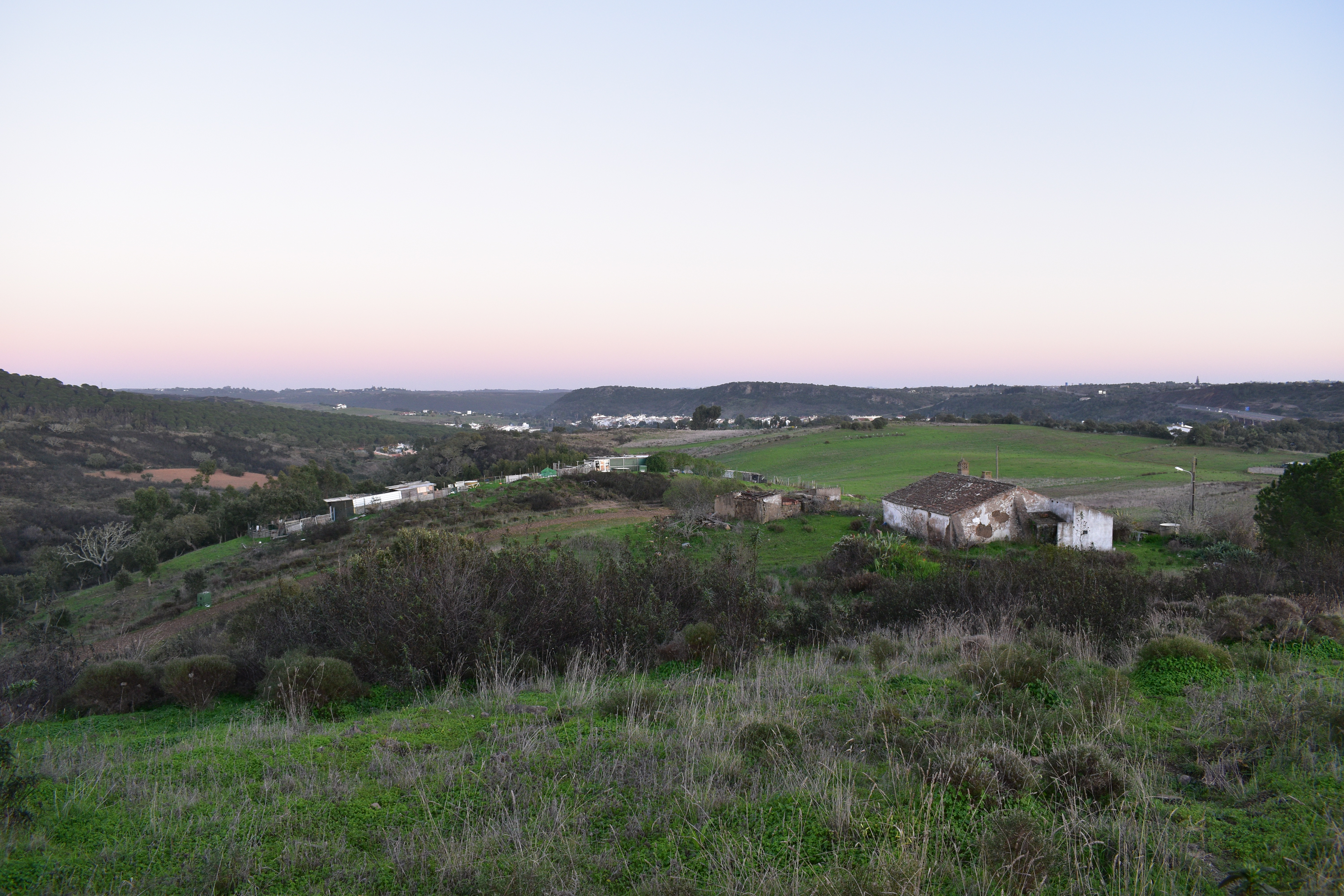 Location of the roman and Iron Age necropolis of Fonte Velha, near the town of Bensafrim, part of the Lagos Municipality, in Portugal.